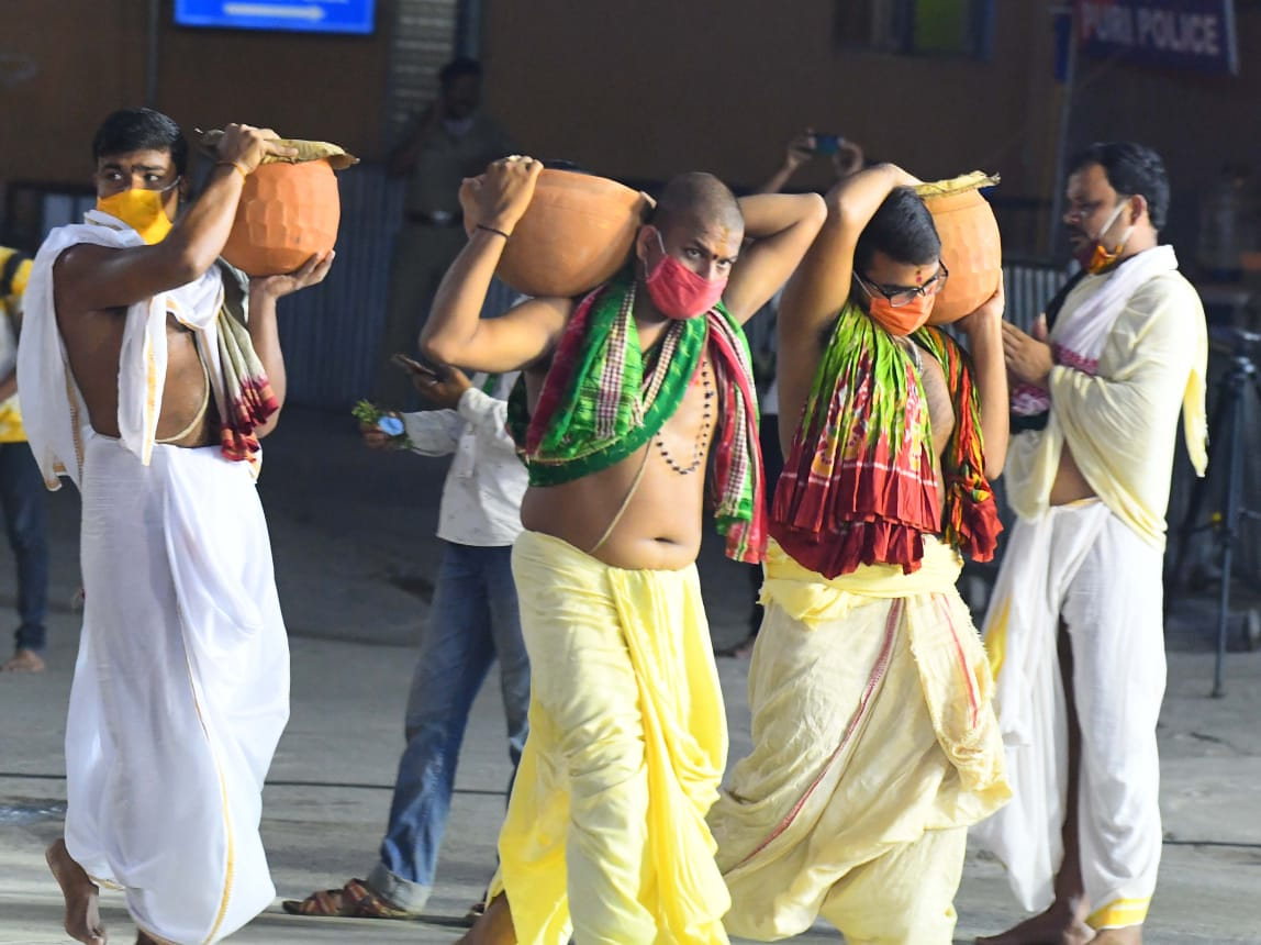 Earthen Pots used in Rituals of Sri Jagannatha carried by servitors. Pictured during Rath Yatra